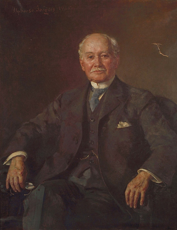 Painting of Lord Atholstan